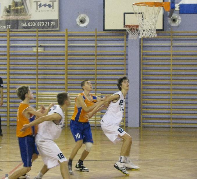 basketball